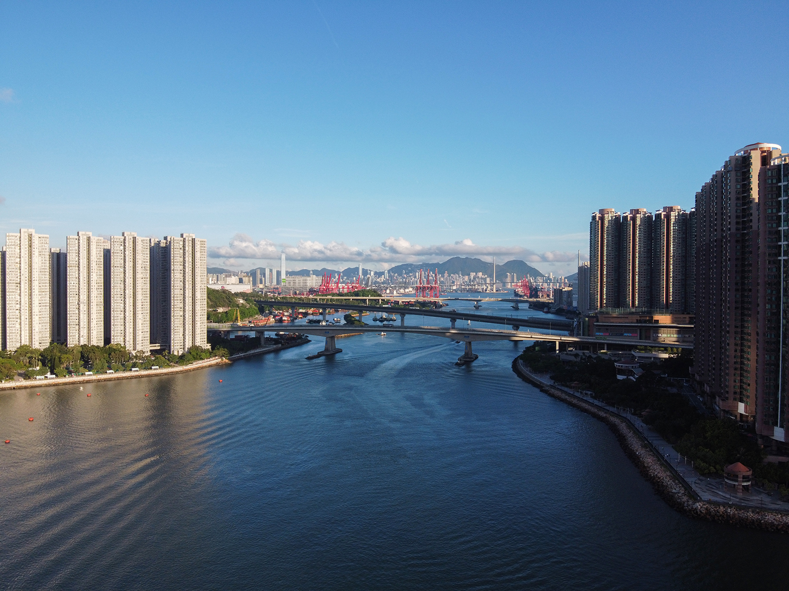 Tsing Yi North Bridge